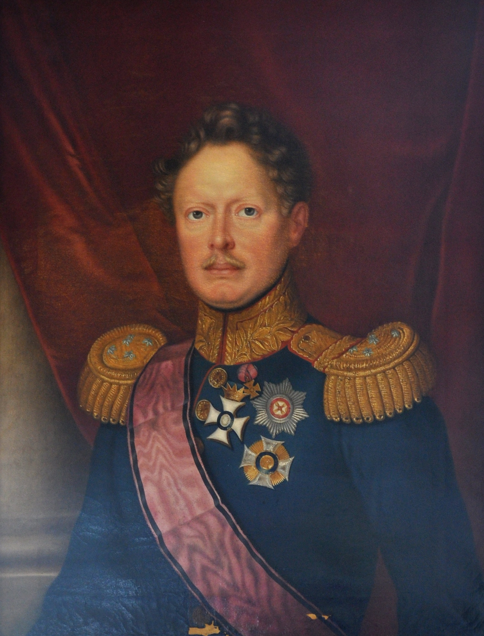 Portrait of William I of Württemberg (1781-1864)